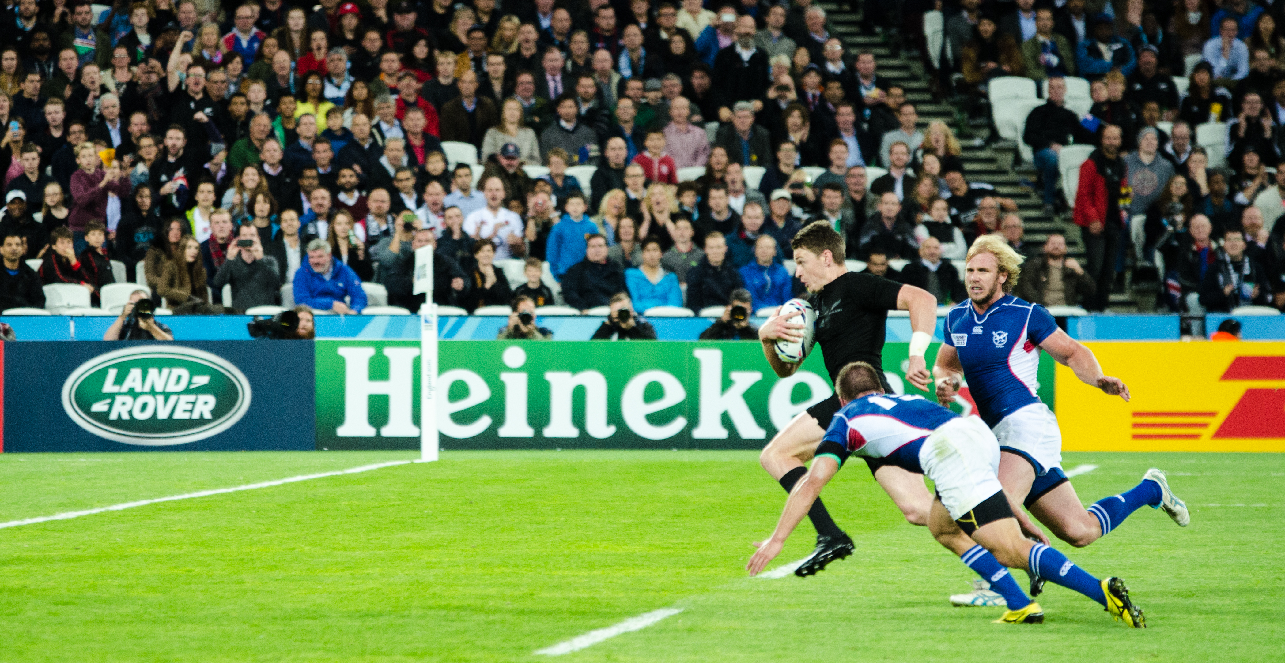 New Zealand international rugby union player Beauden Barrett outpacing Namibia’s Johan Tromp and Conrad Marais during the match between their sides in the 2015 Rugby World Cup at Olympic Stadium in London